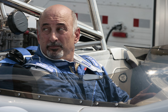 Bobby Rahal in a car at the Barber Motorsports Park Legends of Motorsport historic racing event in 2010.